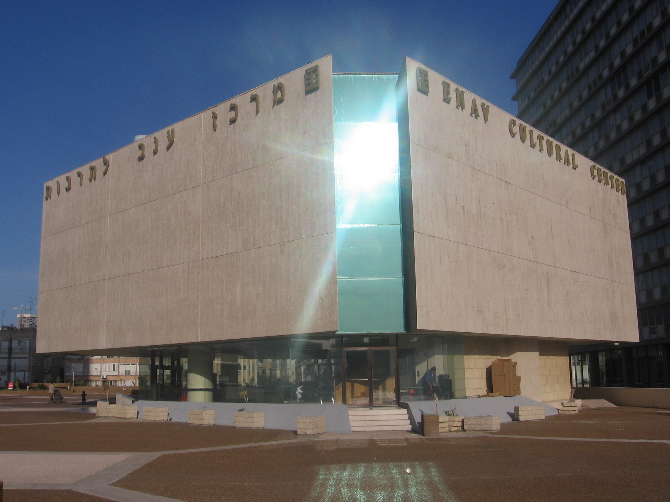 Gan Ha'ir complex in Tel Aviv.